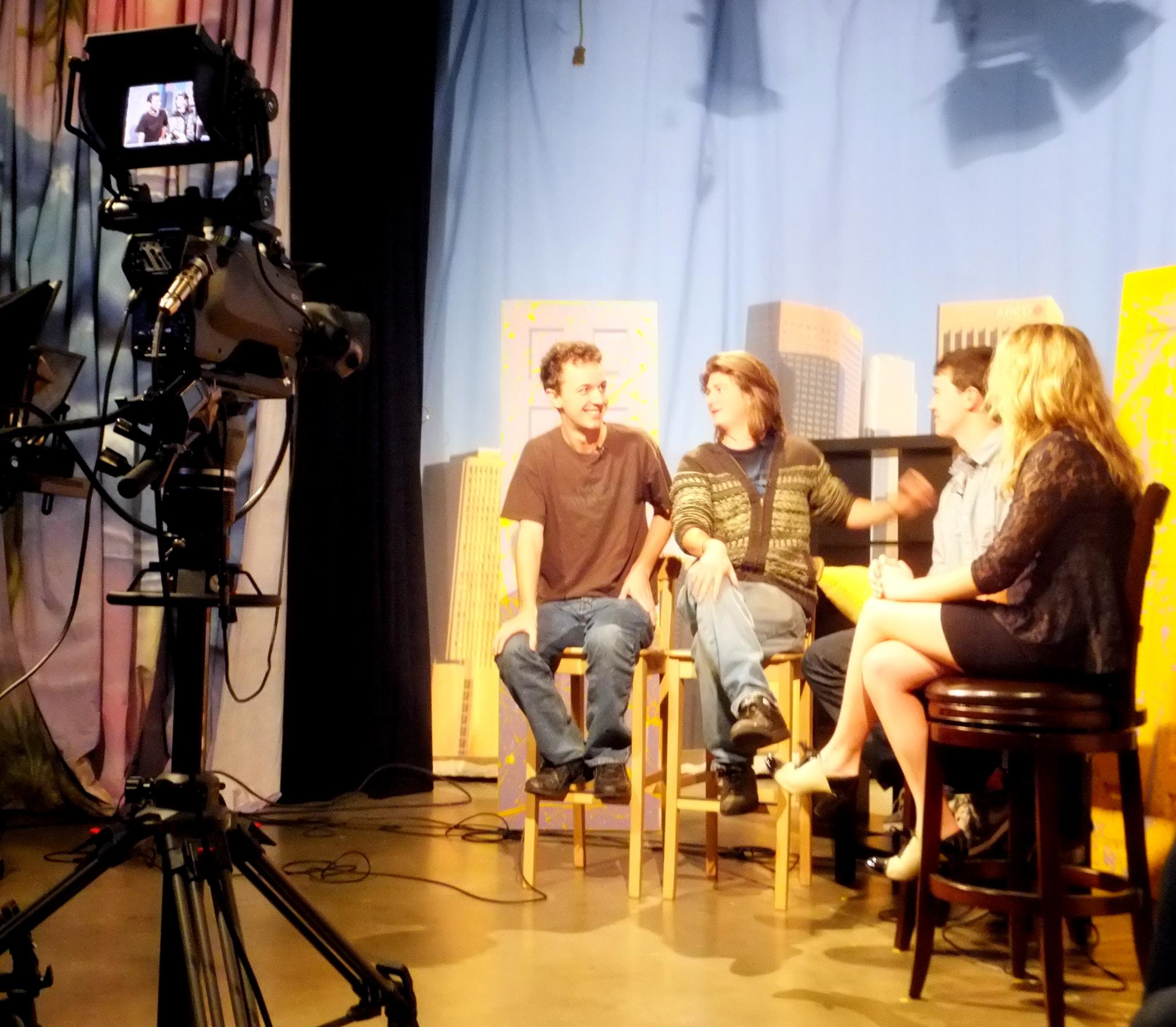 Trojan Vision's signature morning talk show, The Toast